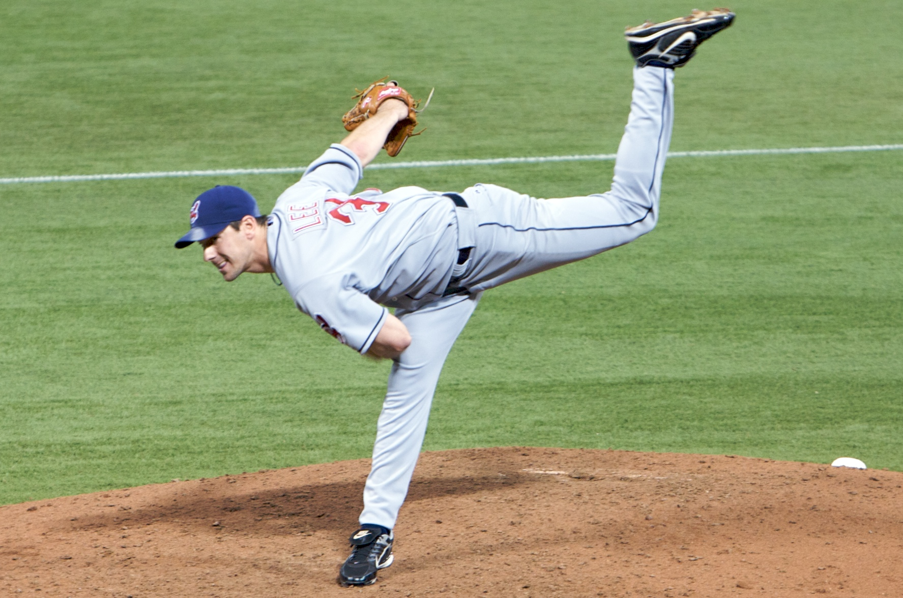 Cliff Lee